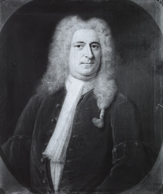 Portret van George Clifford (1685-1760)